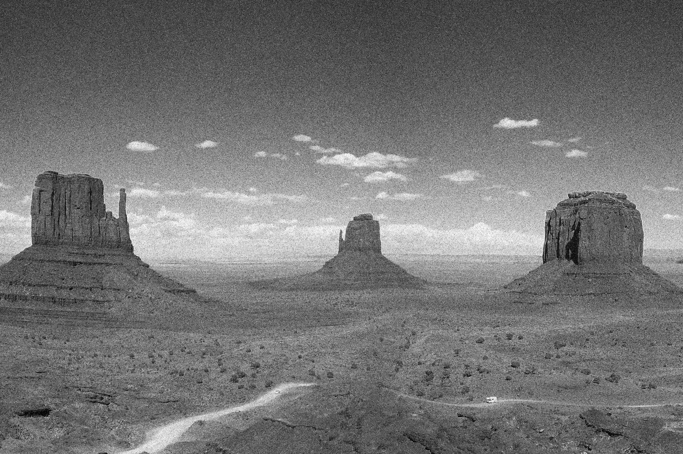 Monument Valley picture modified to get the look and feel of Stagecoach (1939).